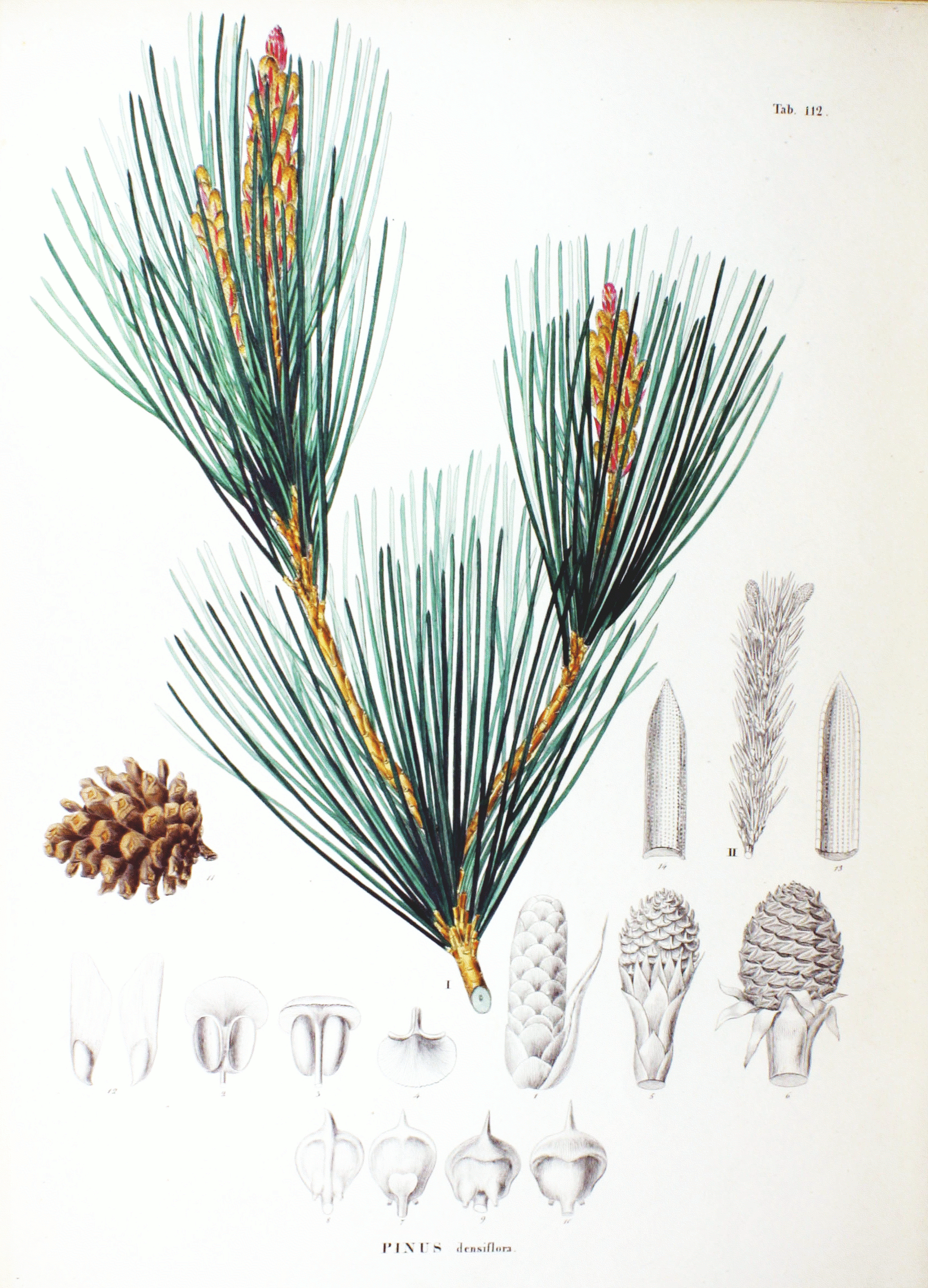 Pinus densiflora plate from book